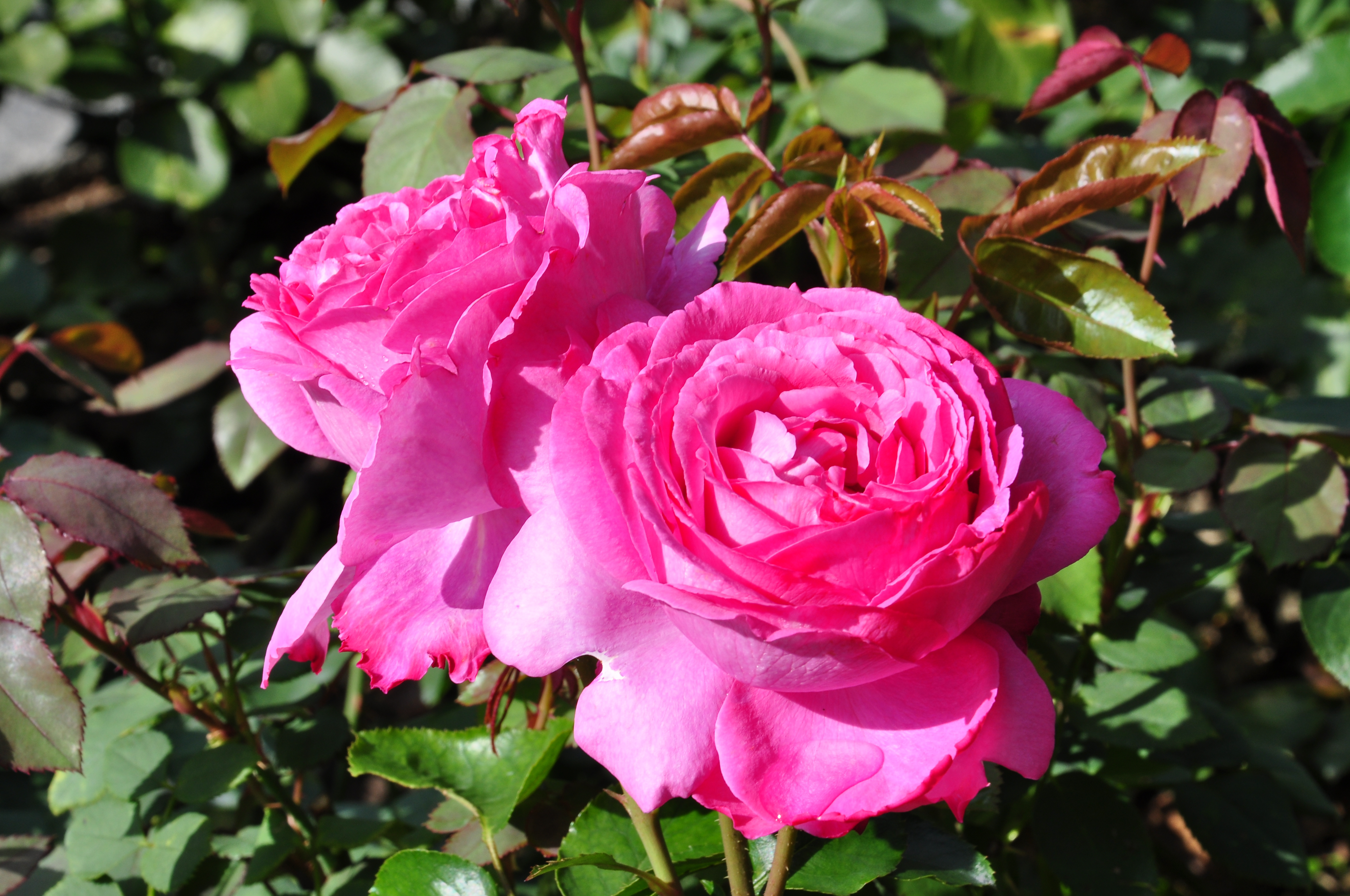 Rose named Aloha (Str. Boerner 1949) in Duftrosengarten for blind people in Rapperswil (Switzerland)